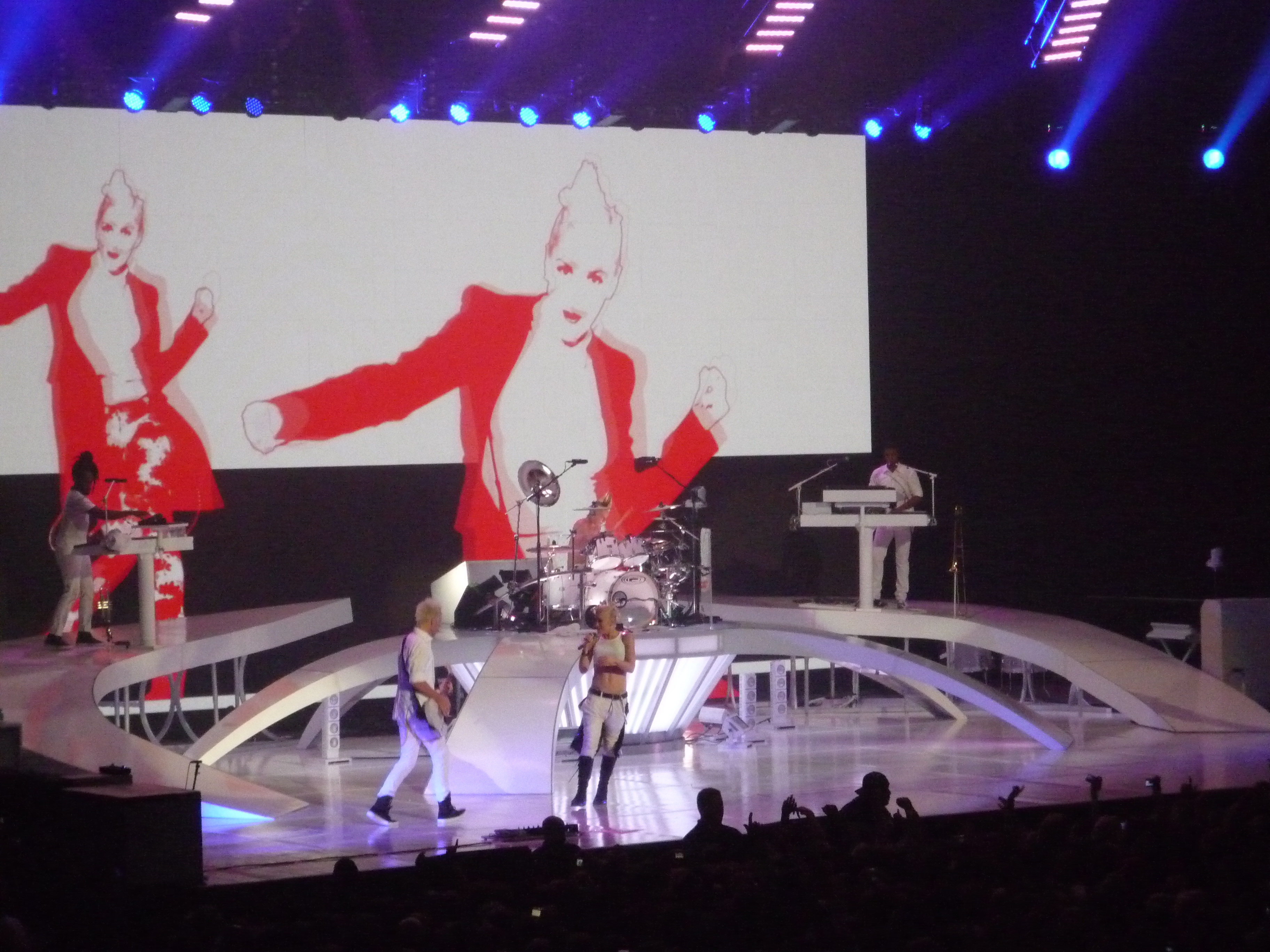 No Doubt performing in General Motors Place.